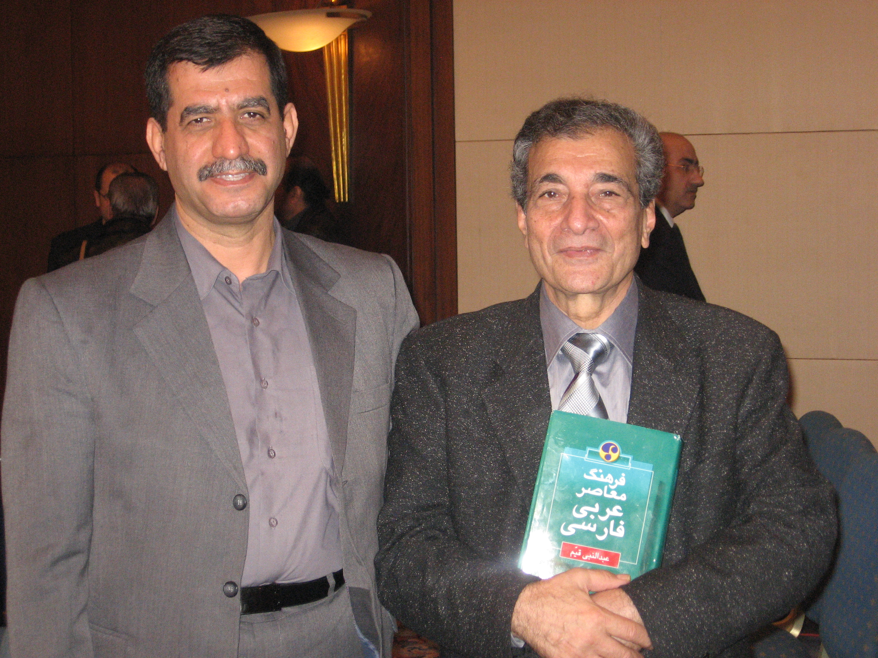 Abdolnabi Ghayem and Faroq Shoushe